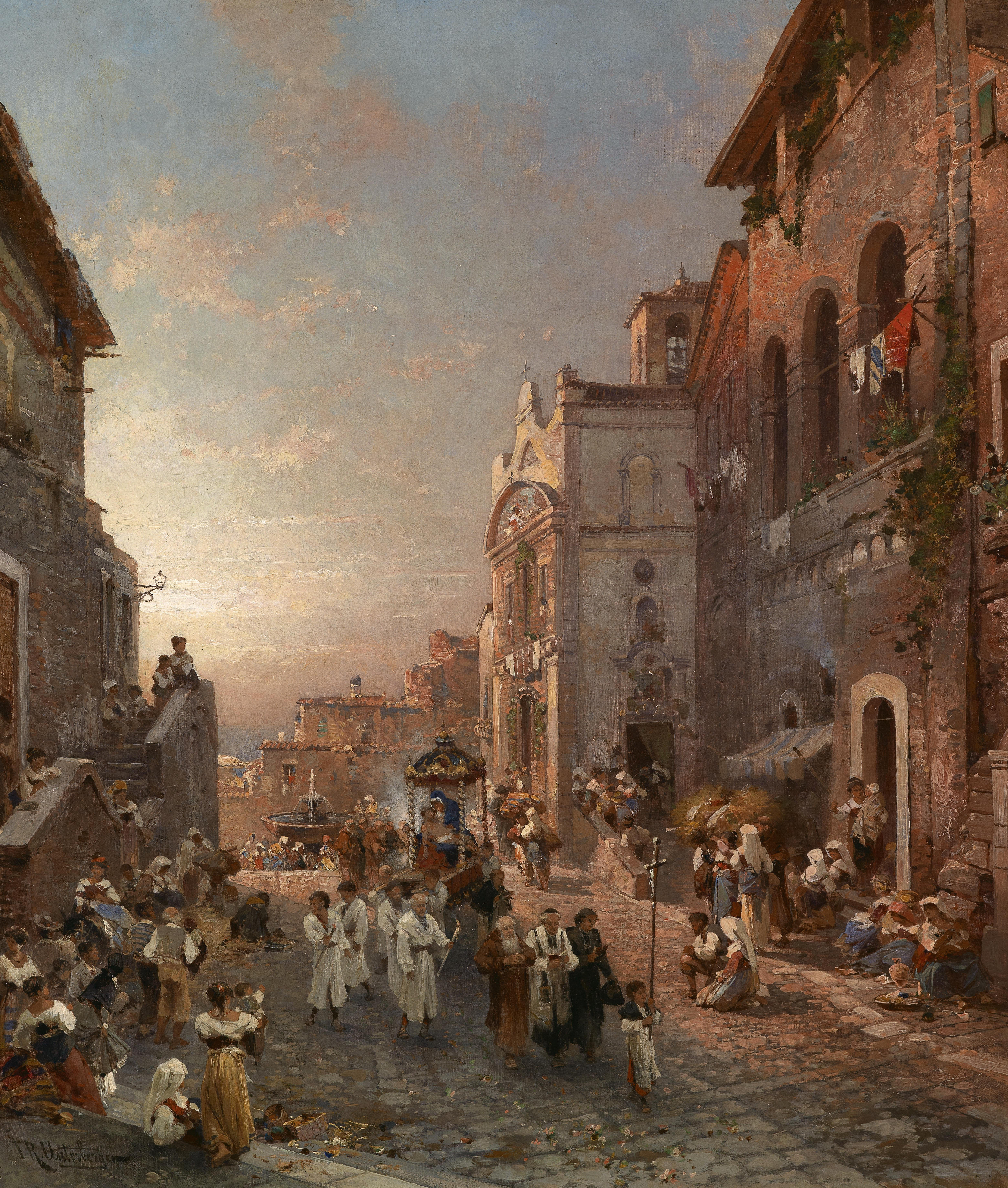 Catholic procession somewhere in an Italian city. Dorotheum sold this painting under the title »Prozessionszug in Neapel«, but the streets and buildings portrayed there do not exist in Naples. (See Discussion)